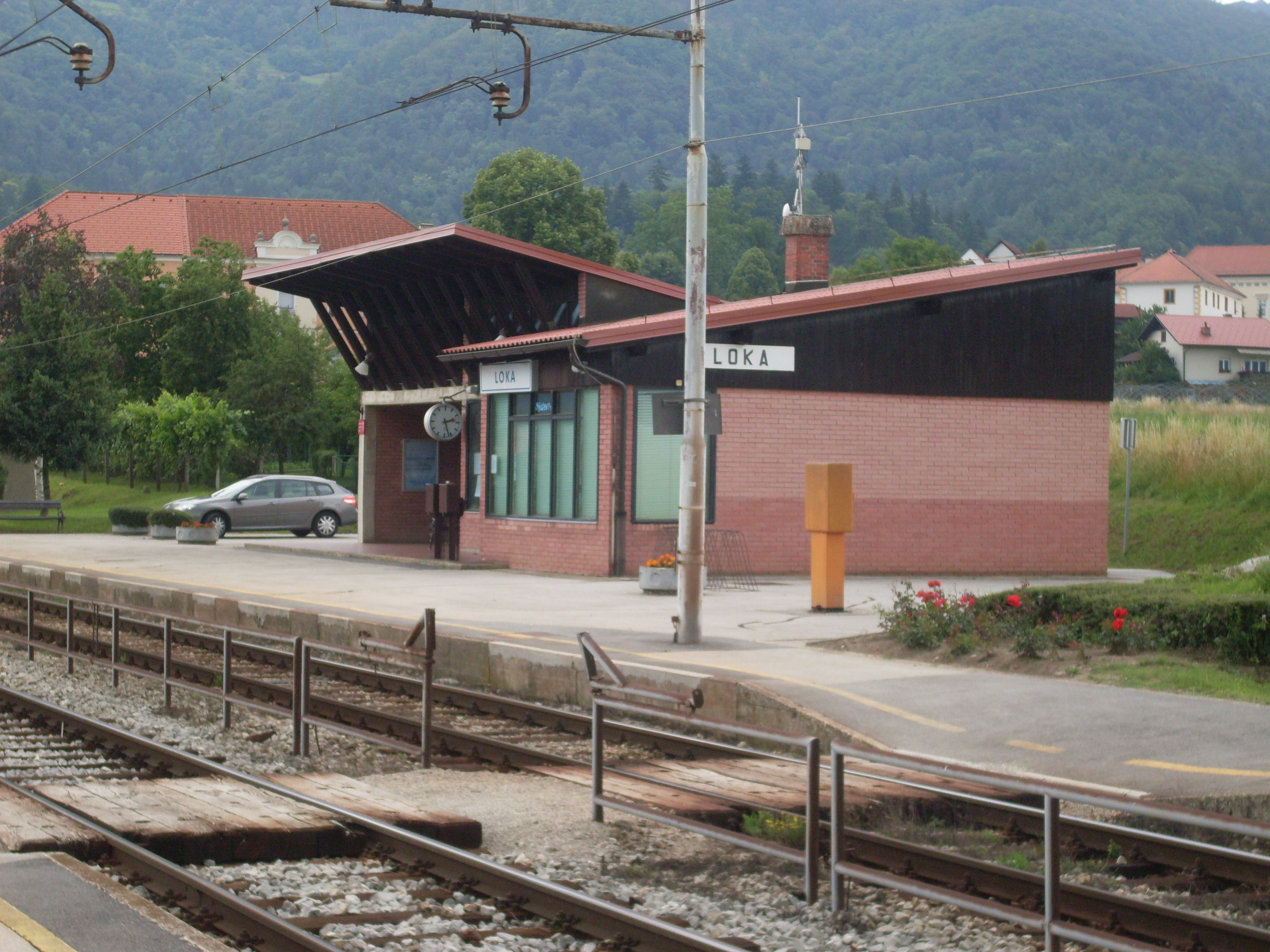 Train station Loka, located in Loka pri Zidanem Mostu